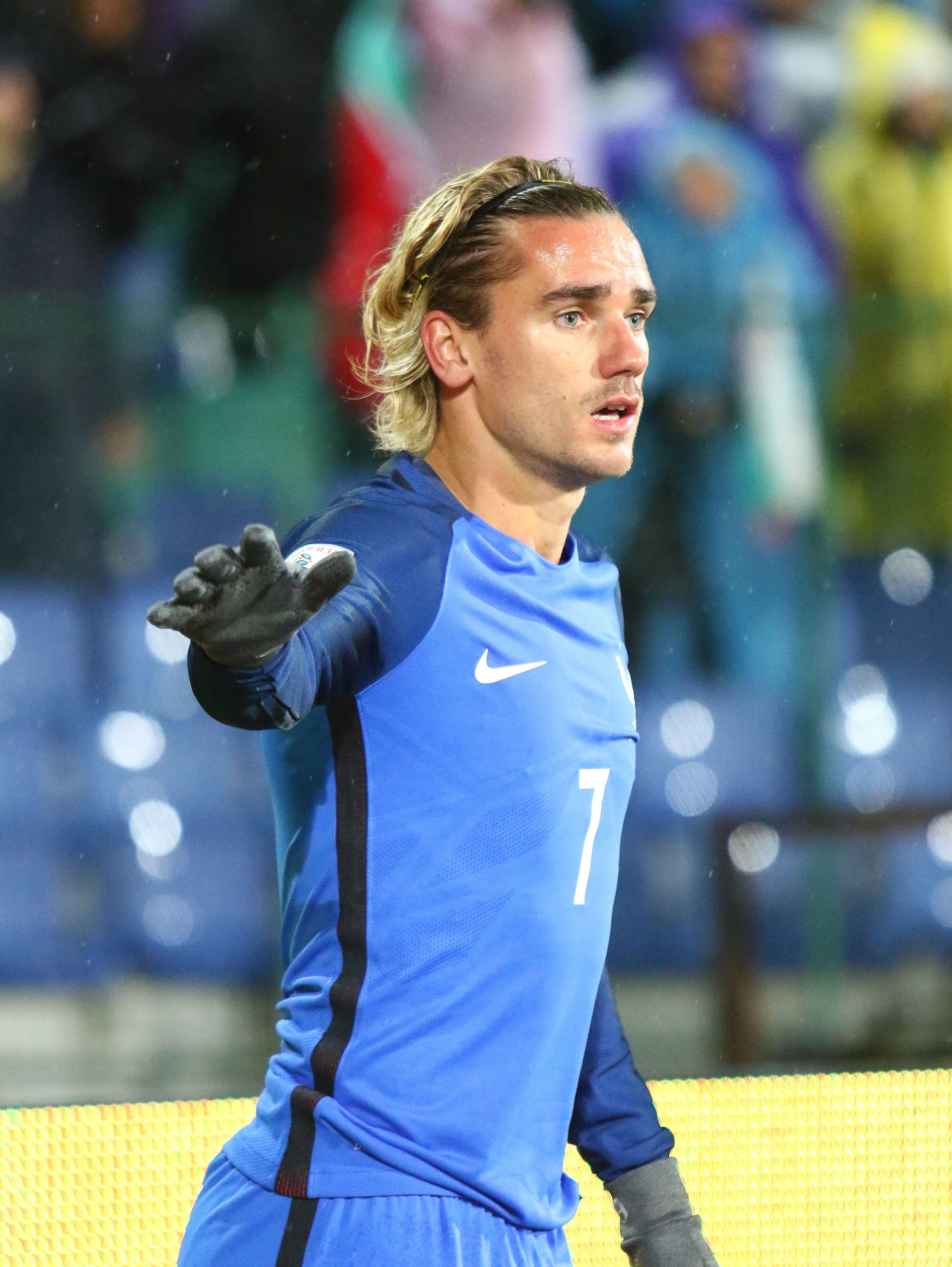 Antoine Griezmann (French pronunciation: ​[ɑ̃twan ɡʁijɛzman];[3] born 21 March 1991) is a French professional footballer who plays for Spanish club Atlético Madrid and the France national team as a forward.